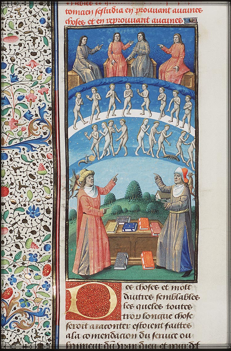 Philosophers Porphyry and Plotinus Dispute Astrology (medieval illuminated manuscript).